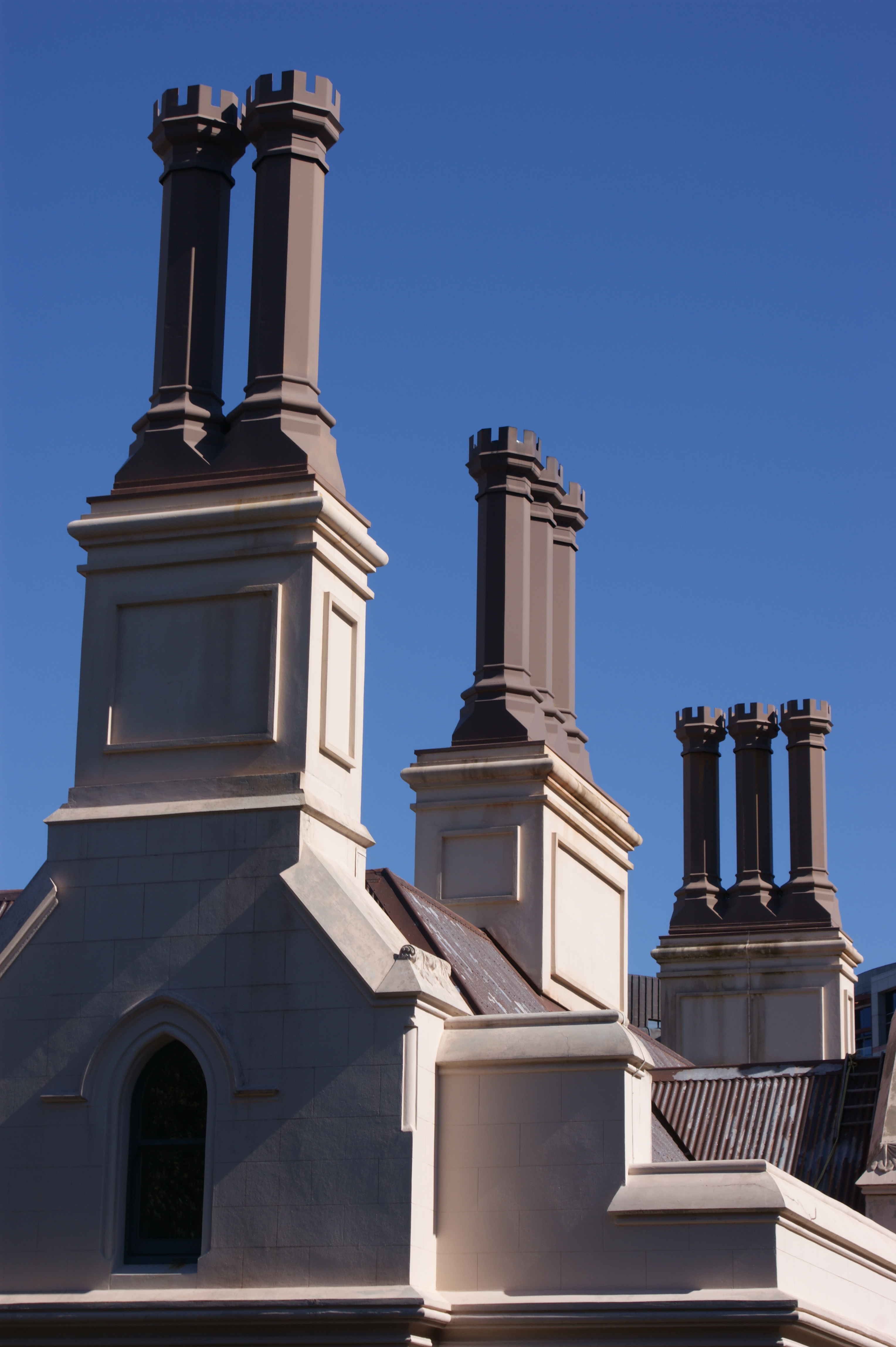 Some of the chimneys on the north-west of the Parliamentary Library building, located on the north of New Zealand parliament grounds in the capital city Wellington.